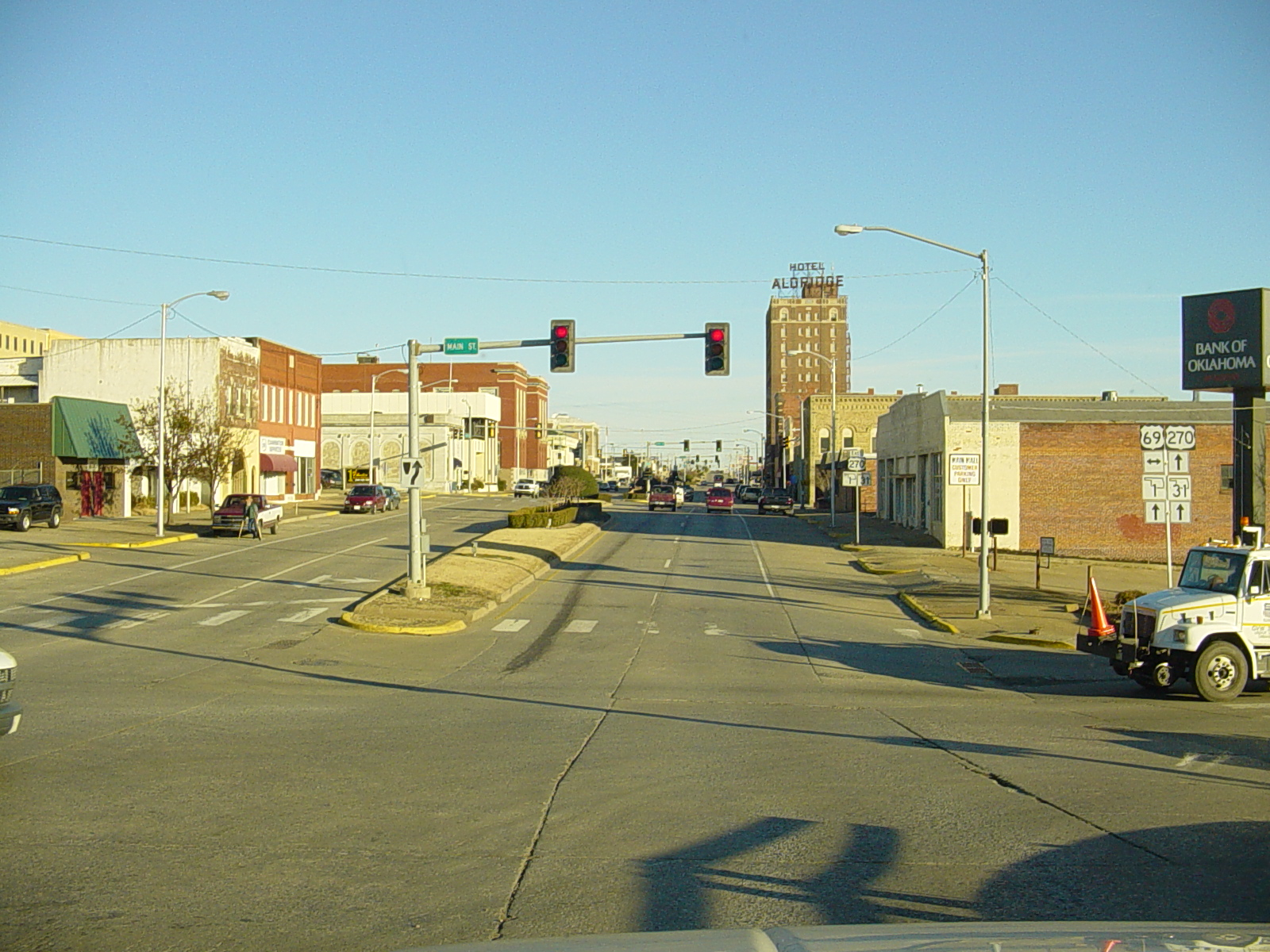 Picture of Downtown McAlester, OK